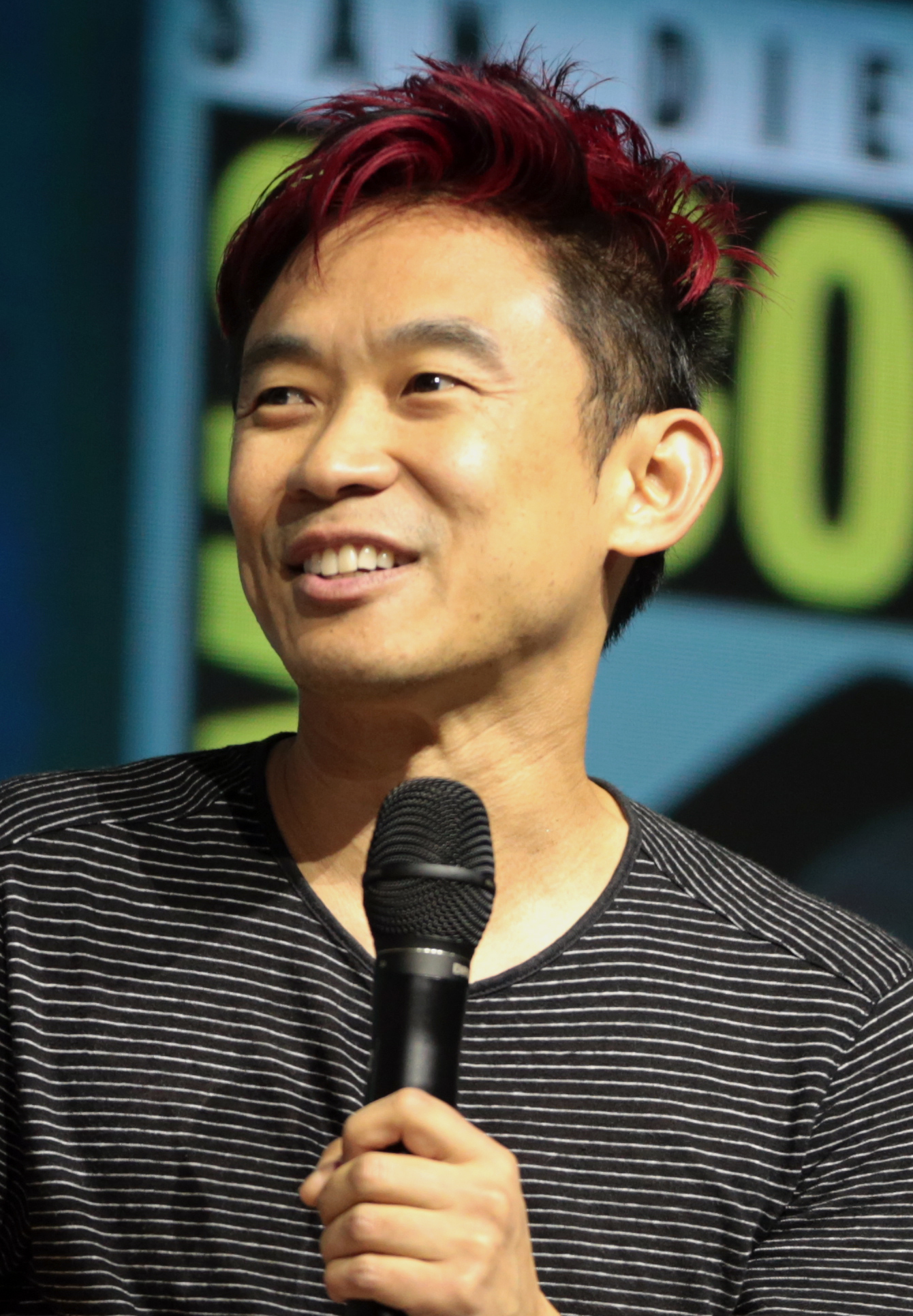 James Wan speaking at the 2018 San Diego Comic Con International, for "Aquaman", at the San Diego Convention Center in San Diego, California.